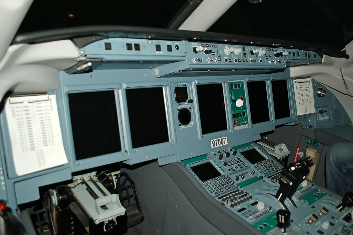 Cockpit equipment of Sukhoi Superjet 100, serial number SN 97007 in January 2011, before the first commercial flight.